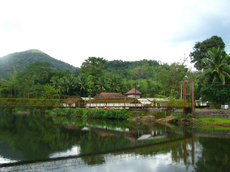 Shishileshwara-Temple-13